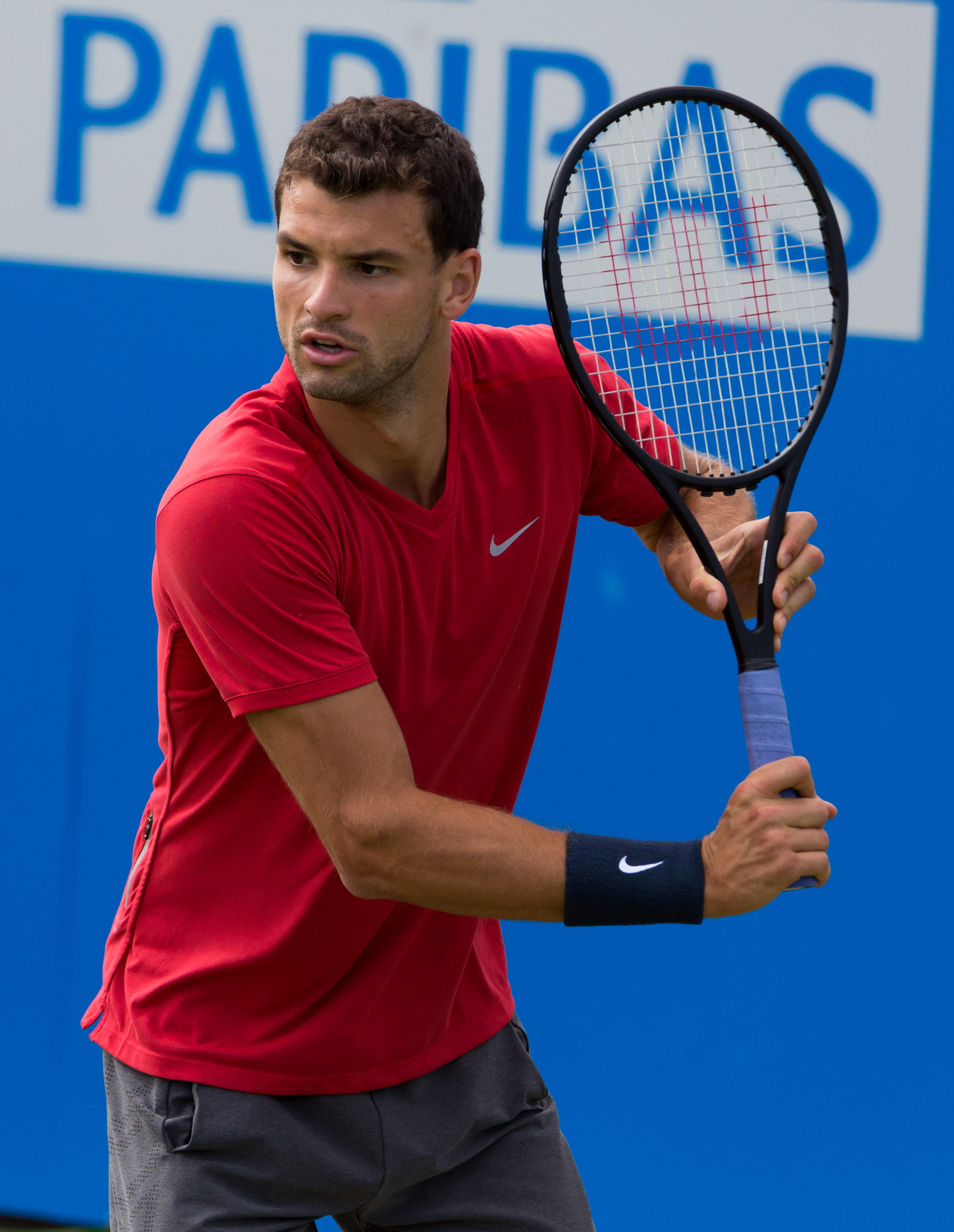 Grigor DimitrovGrigor Dimitrov during practice at the Queens Club Aegon Championships in London, England.